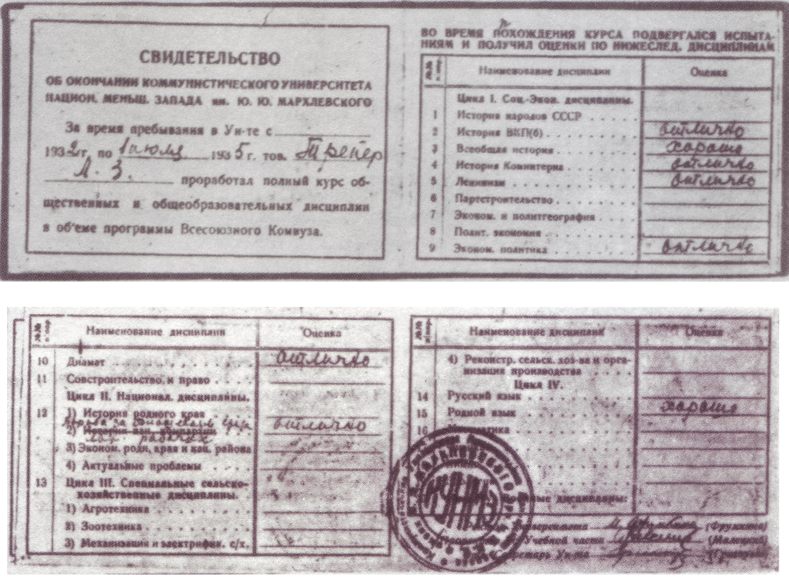 Certificate of completion of the Communist University of National Minorities of the West